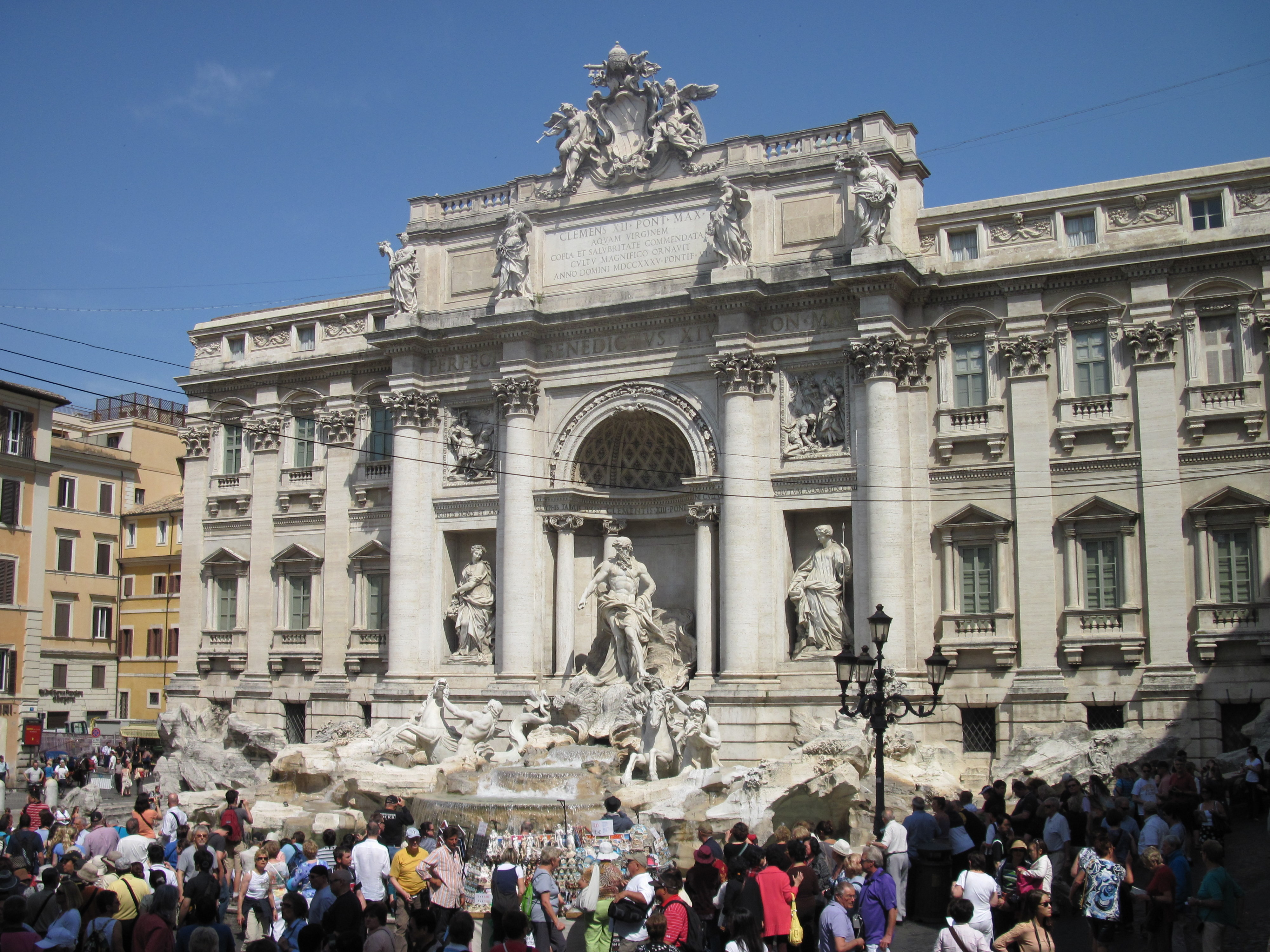 Fontana di Trevi